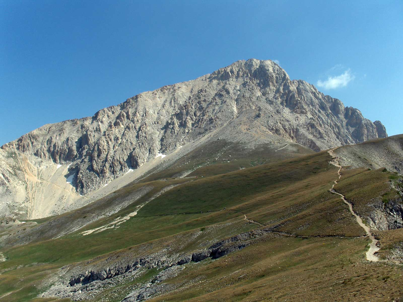 The south face of Corno Grande, showing the normal route (path heading left) and the direct route